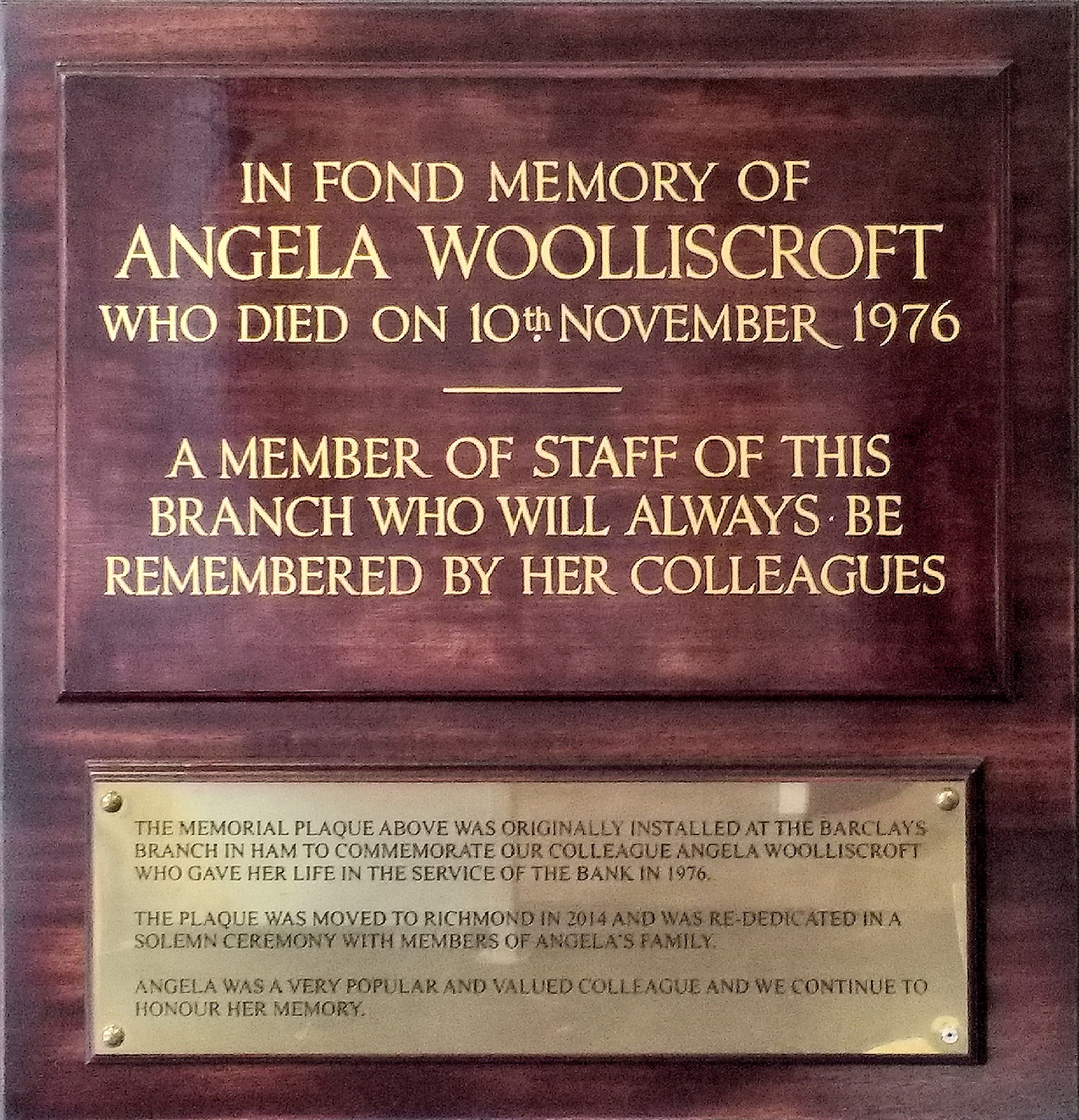 Plaque in Barclays Bank, 8 George St, Richmond. To Angela Woolliscroft who was murdered at their bank in Ham (1976).